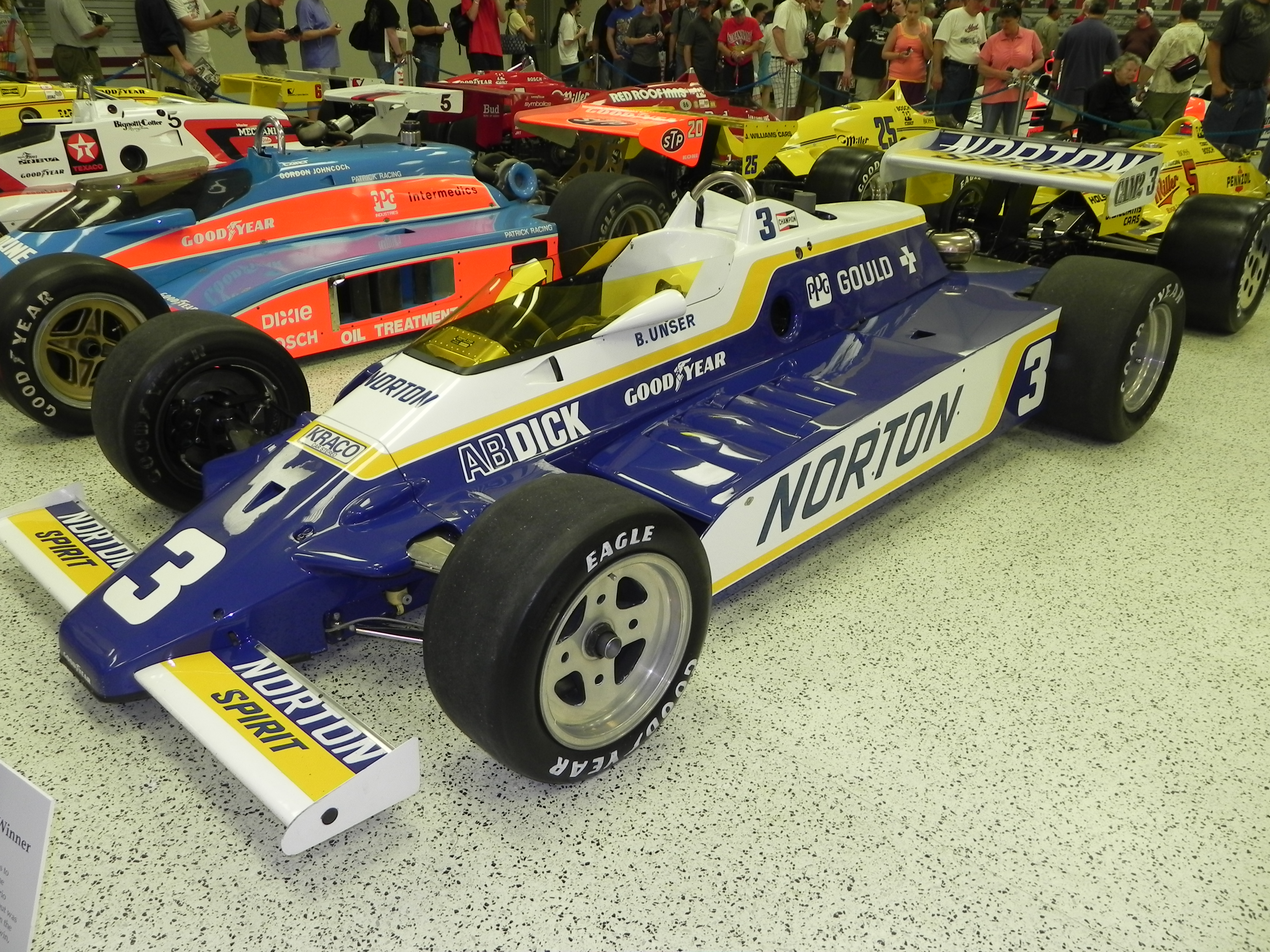 Image of the winning car of the 1981 Indianapolis 500 (Bobby Unser). Photo was taken at the Indianapolis Motor Speedway Hall of Fame Museum, during the month of May 2011, at the 100th Anniversary "Ultimate Indianapolis 500 Winning Car Collection."